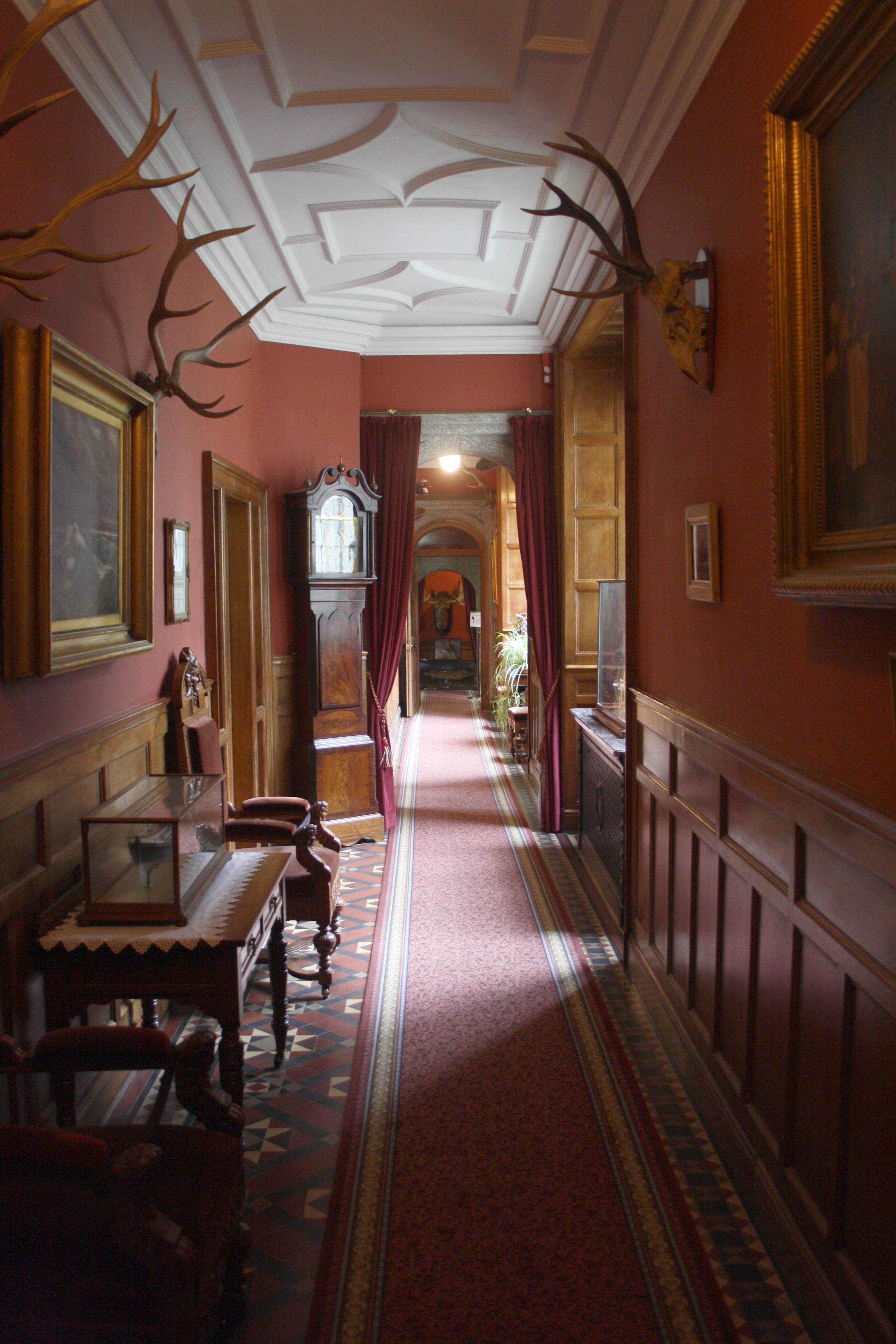 A corridor in the National Trust property Lanydrock.